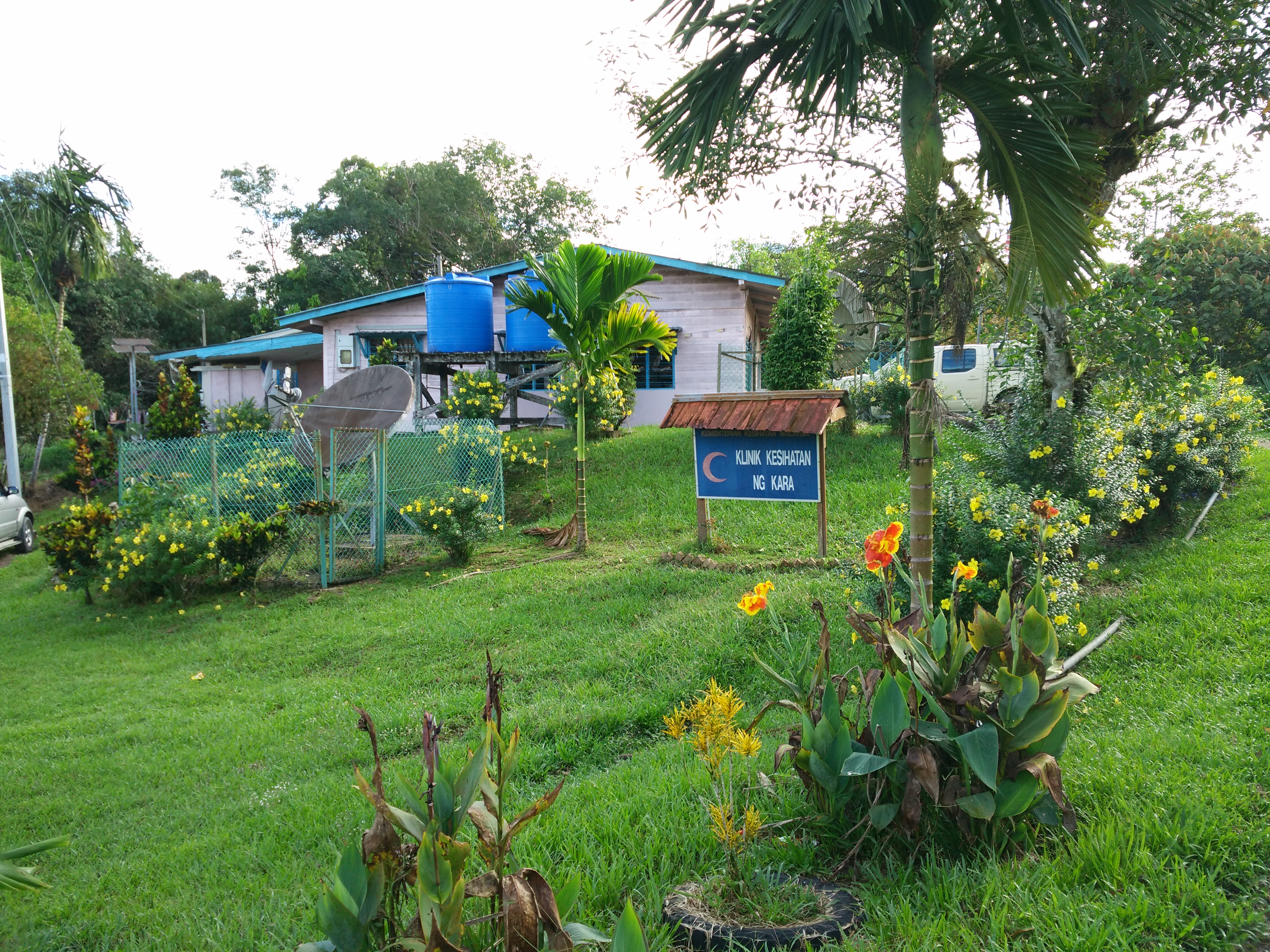 Klinik Kesihatan Nanga Kara